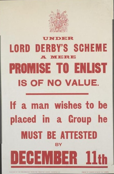 British recruitment poster for the Derby Scheme. Parliamentary Recruiting Committee Poster No.137.